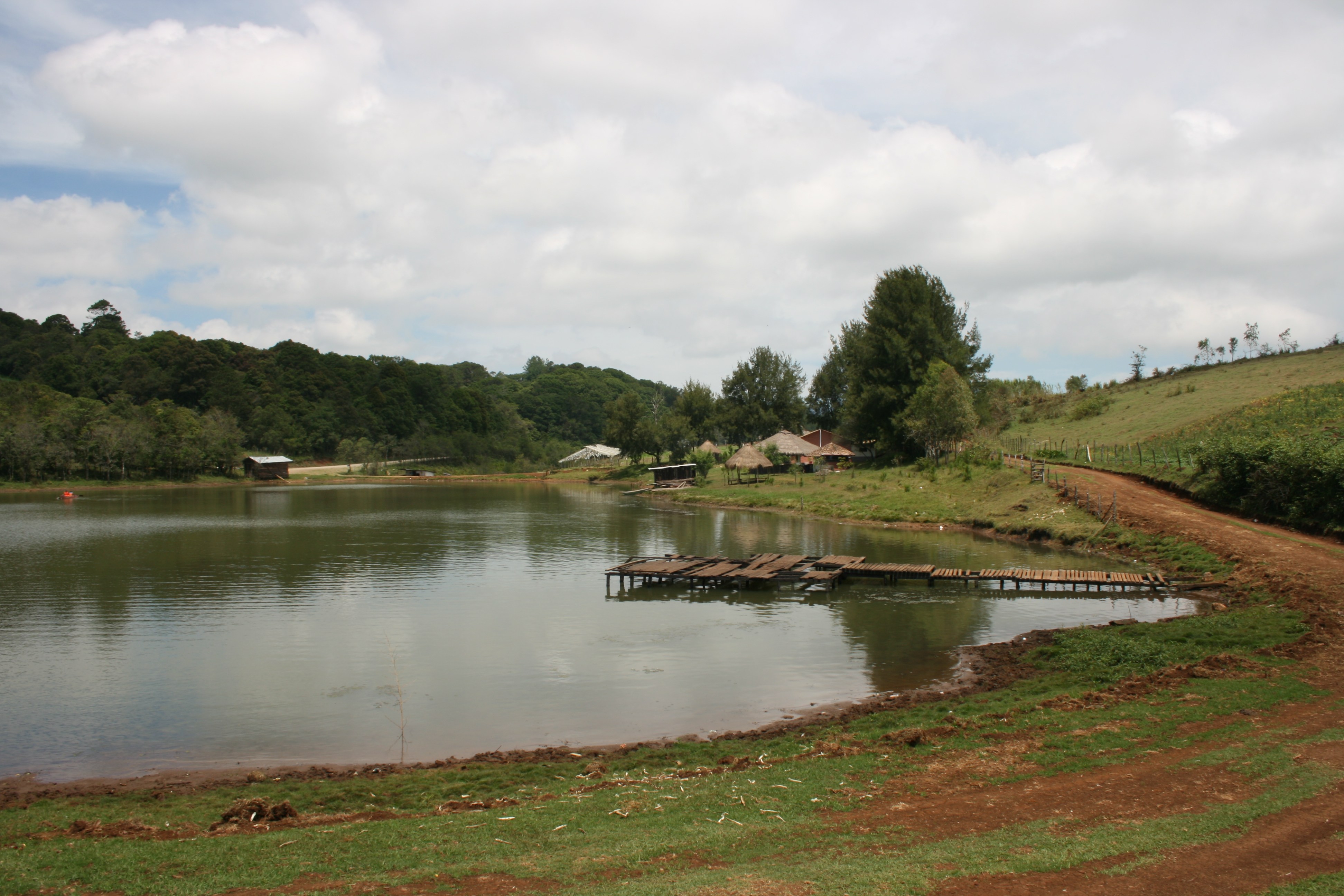 The Laguna de Chiligatoro - a small tourist area in the rural area outside La Esperanza, Honduras.